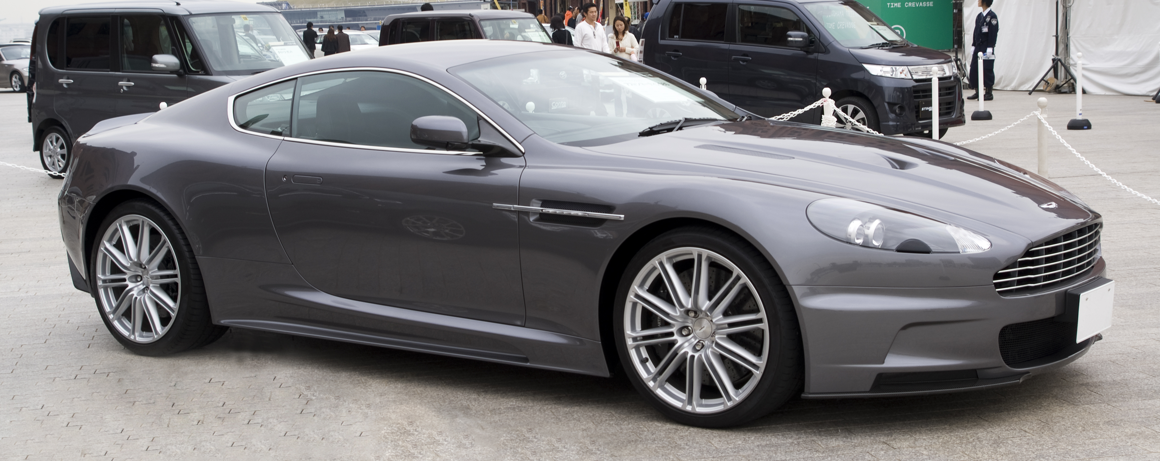 2008 Aston Martin DBS photographed in Yokohama Red Brick Warehouse